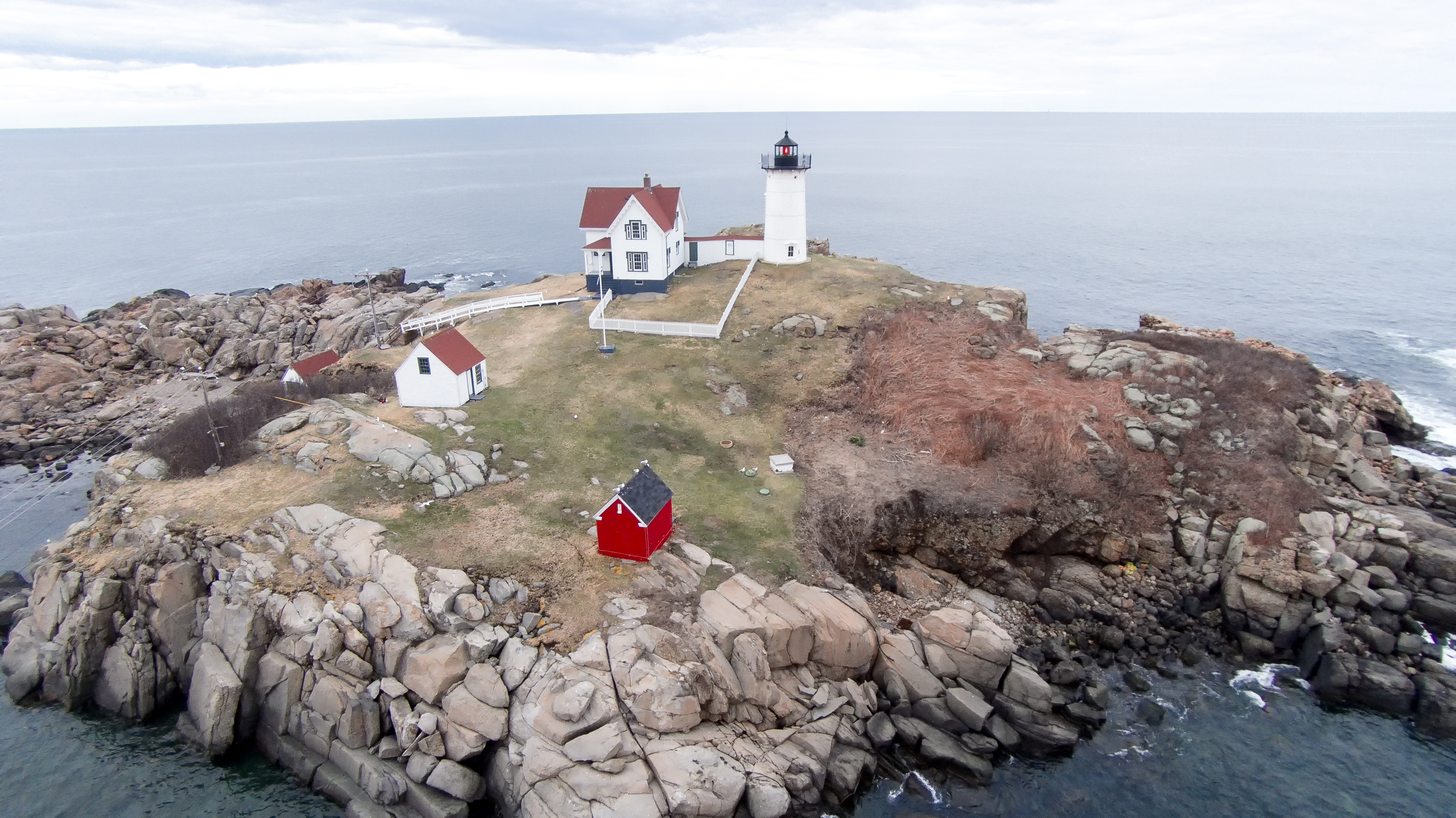 Nubble Light from Above